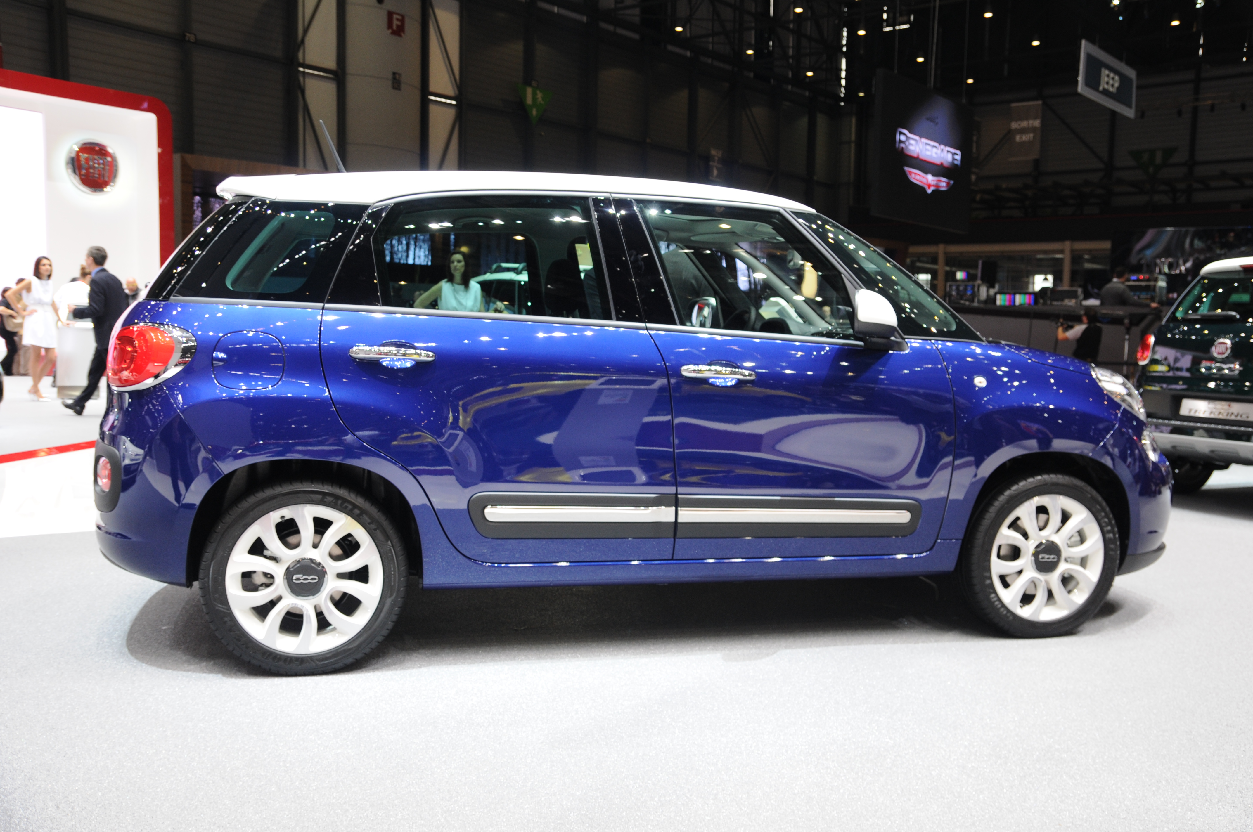 Geneva Motor Show 2014 (photo taken on the first press day)